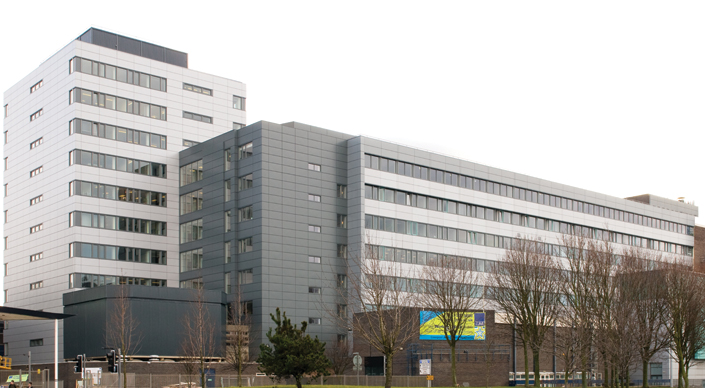 The Byrom Street City Campus of Liverpool John Moores University